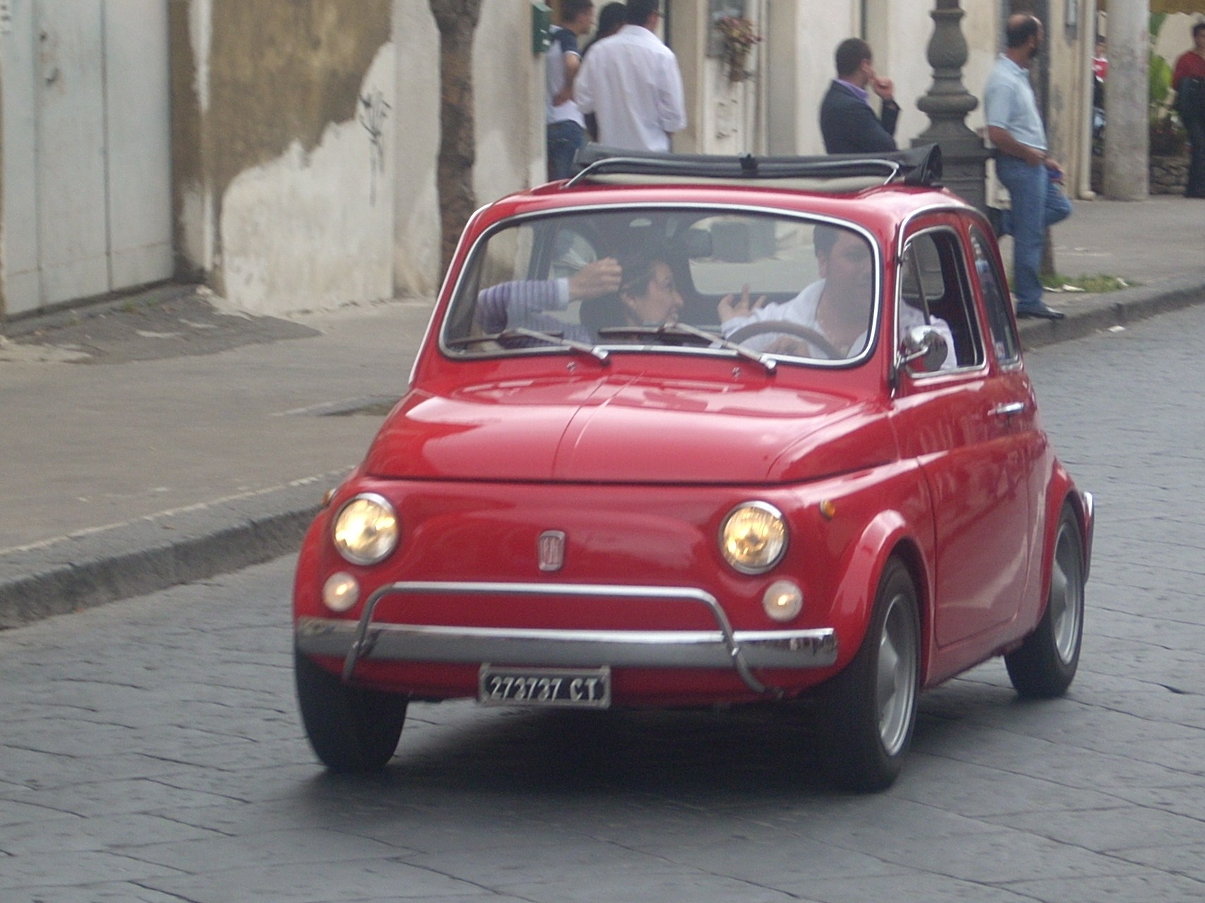 Red Fiat 500 at a meet